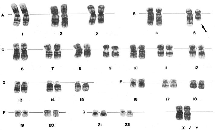 Myelodysplastic syndrome